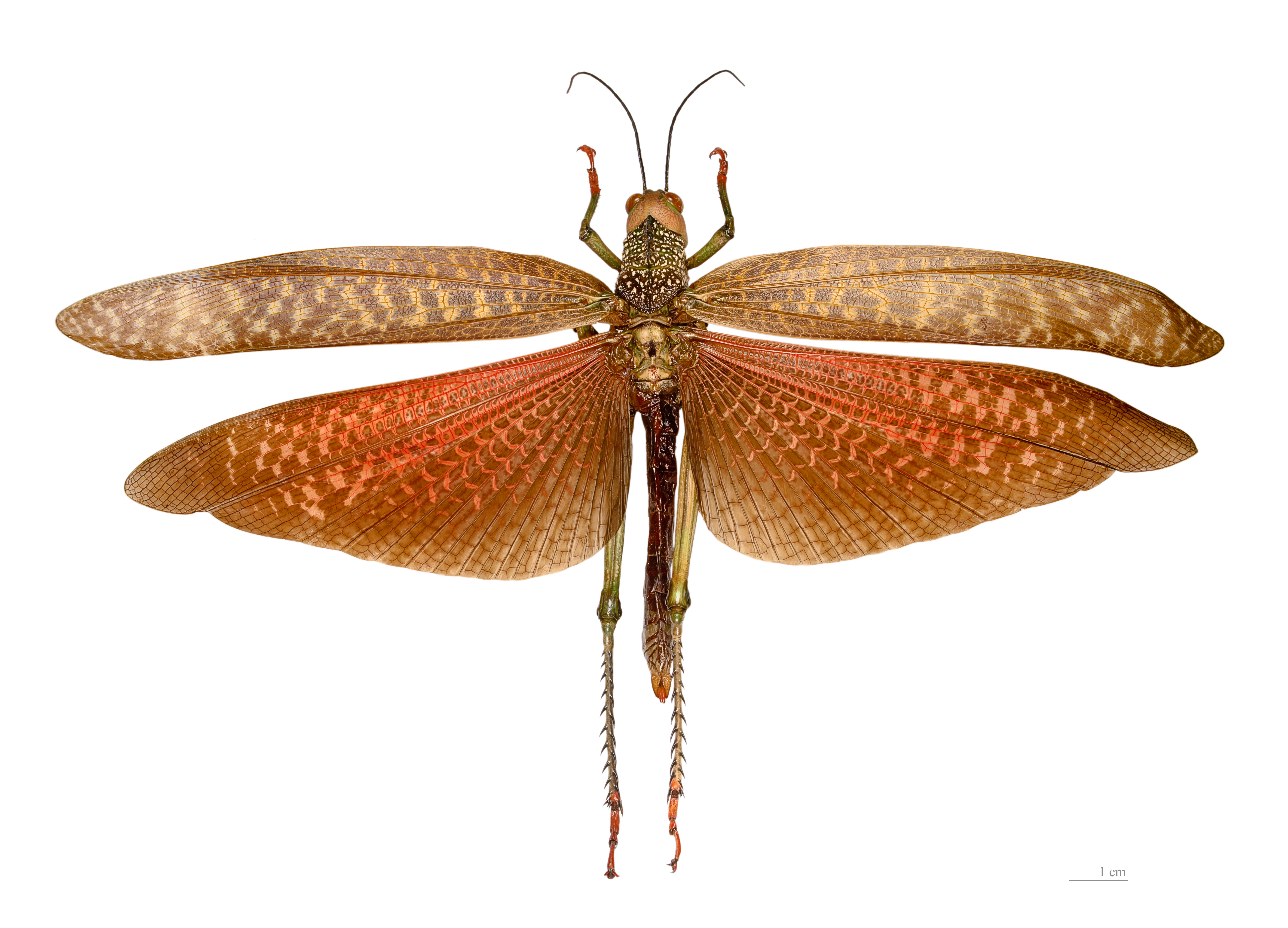 ♂ - Dorsal side Locality : Route de Kaw, PK40, French Guiana.